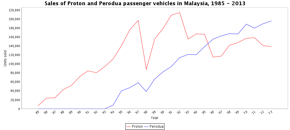 Sales of Proton & Perodua passenger vehicles in Malaysia, 1985 - 2013.As published by the Malaysian Automotive Association (MAA).Note : Detailed data is unavailable for Proton between years 1985 and 1994, rounded values are used instead.SourcesProton, 1985 - 1994, Perodua, 1994, Proton & Perodua, 1995 - 2001,Proton & Perodua, 2002 - 2012, Proton & Perodua, 2013Raw data, Proton7500,24100,24900,42500,52700,72500,84800,80400,94100,111300,140647,176100,196806,87489,155720178960,208746,214373,155420,166833,166118,115551,117624,141782,147744,156960,158601,141120,138753Raw data, Perodua8880,39906,46941,58255,38921,66499,82484,94476,114265,121347120461,138466,155416,162141,167392,166735,188641,179989,189137,196071